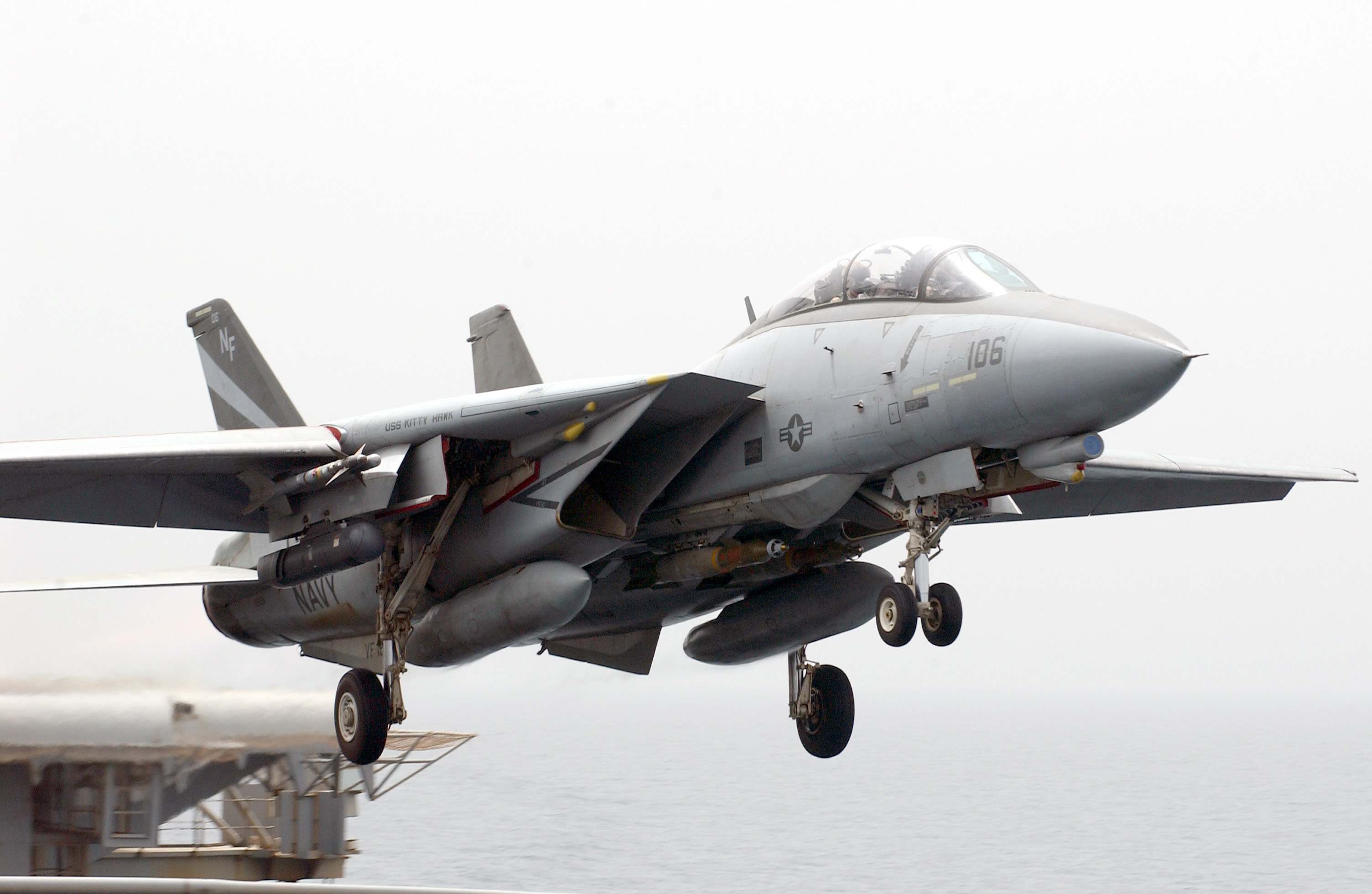 An F-14A Tomcat fighter aircraft launches from one of four steam powered catapults aboard USS Kitty Hawk (CV-63) operating in the Arabian Gulf.